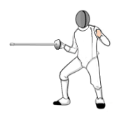 Image of an Epeeist